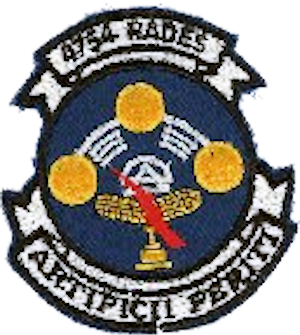 Emblem of the 4754th_Radar_Evaluation_Squadron